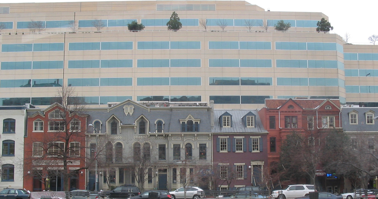 Cropped from an image taken by me last week